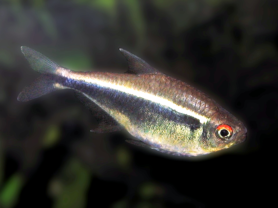 Black neon tetra